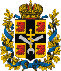 Coat of arms of Tiflis governorate, Russian Empire